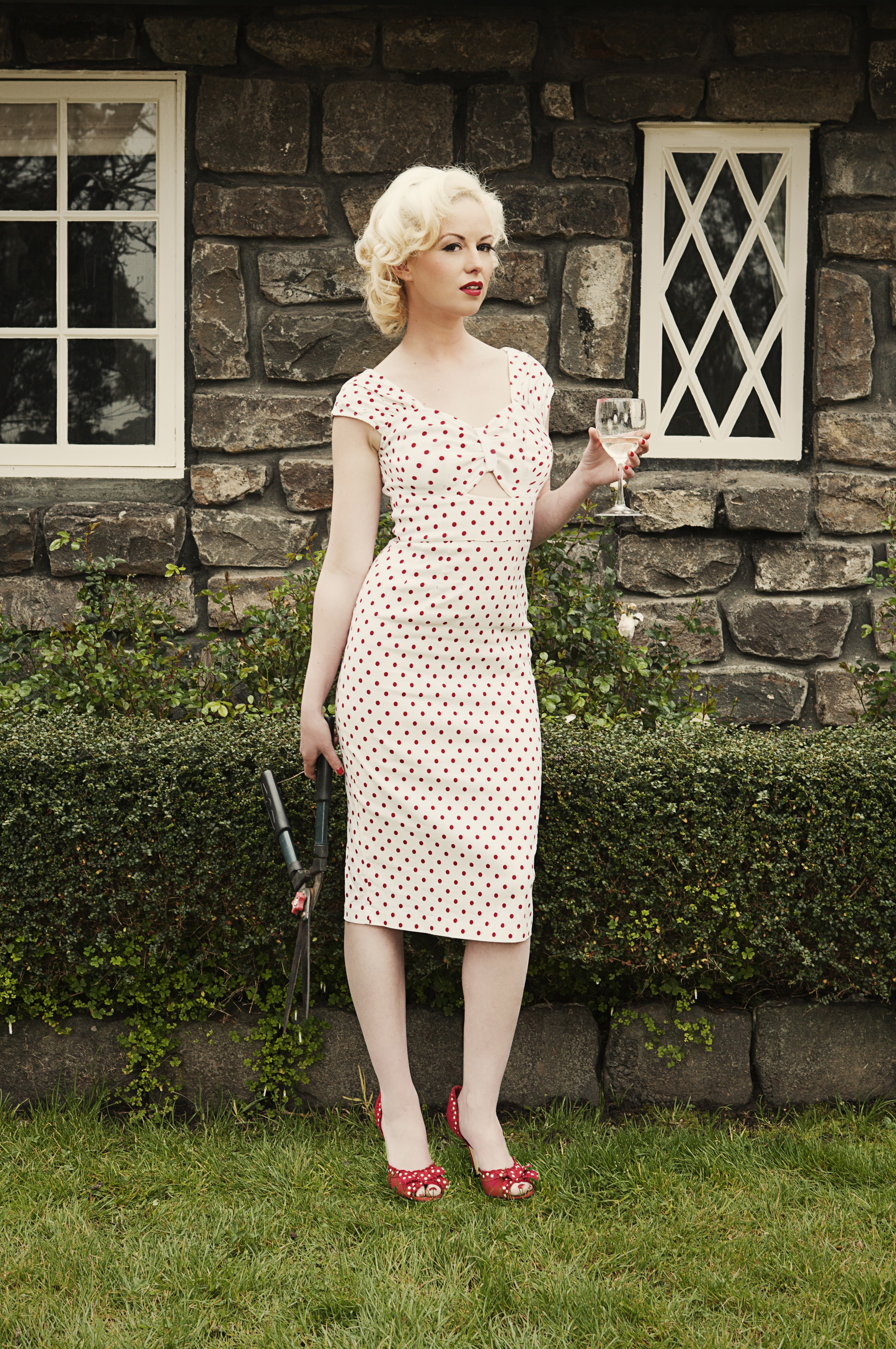 Portrait of Jac Bowie